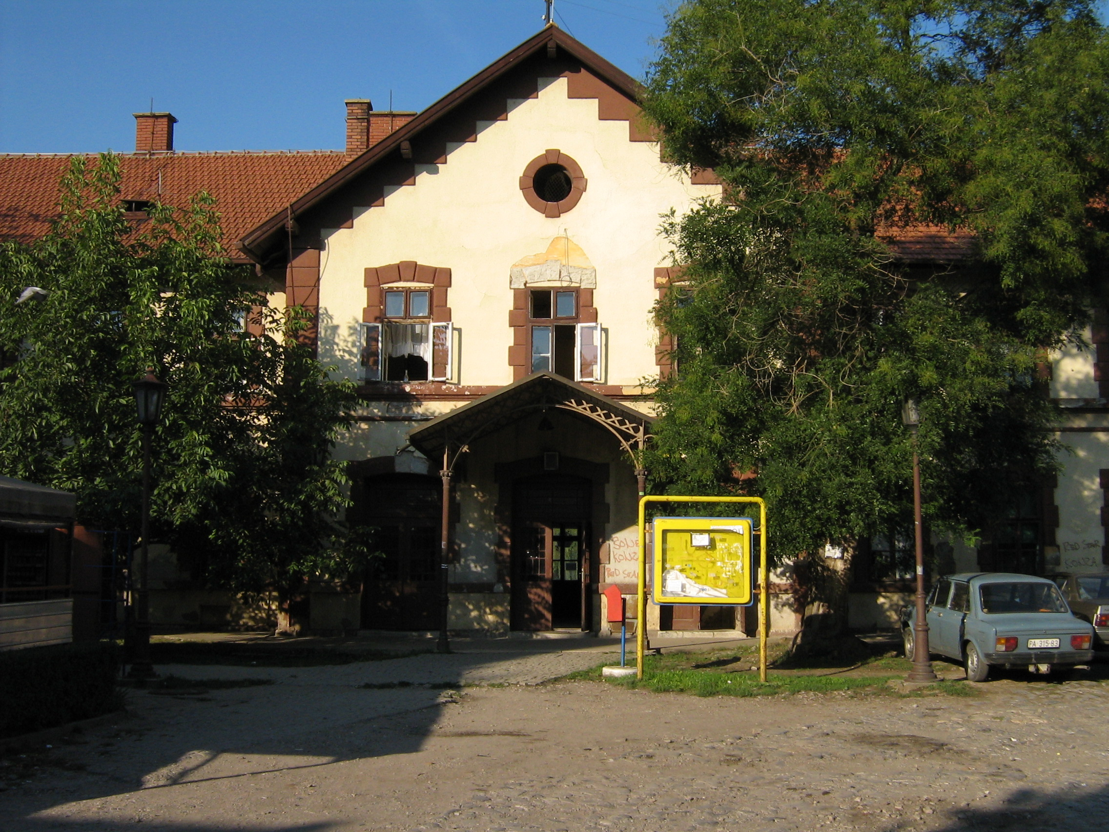 Railway station in Pančevo